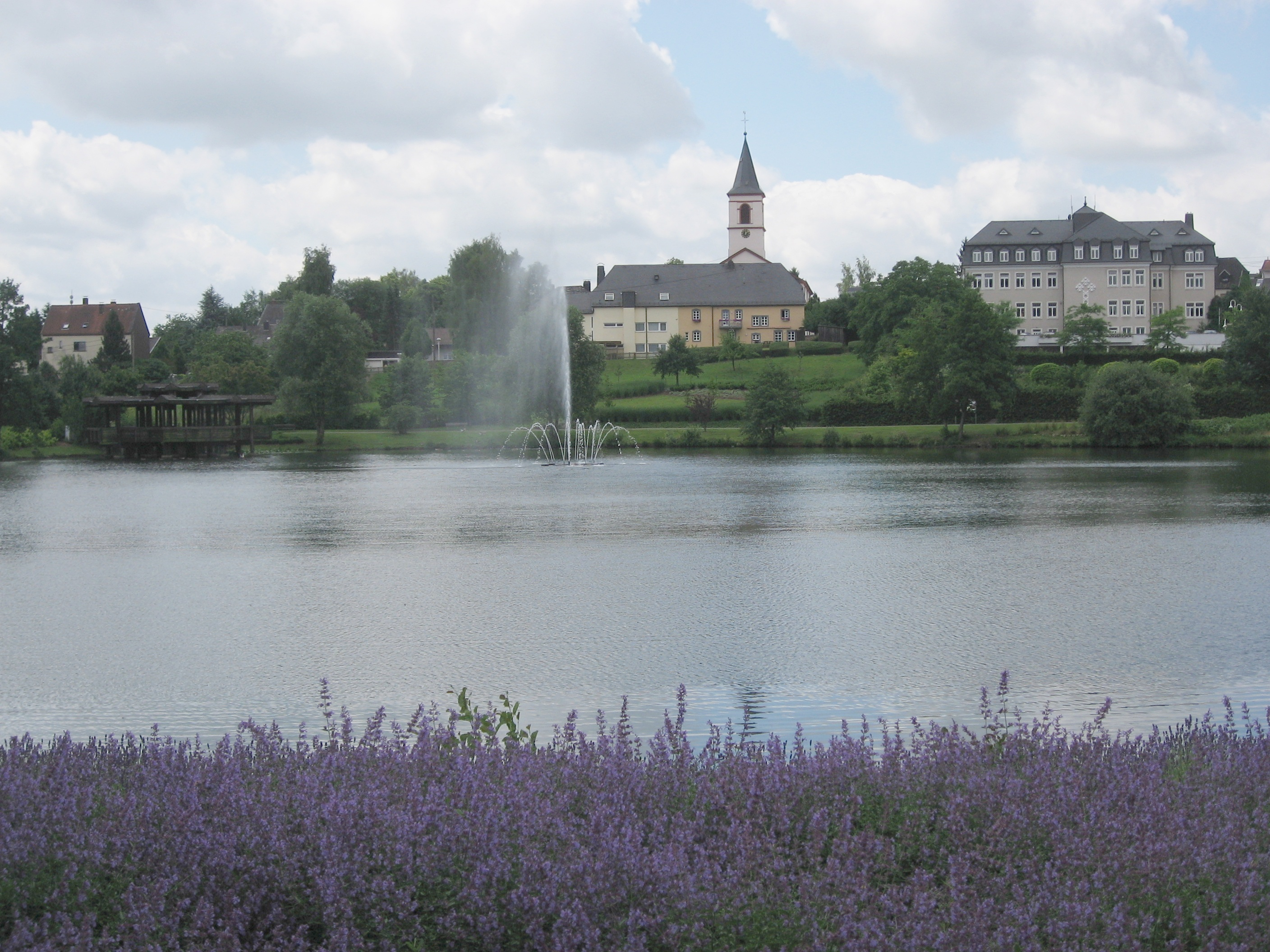 View over the "Kurpark" in Weiskirchen to Church and Municipality